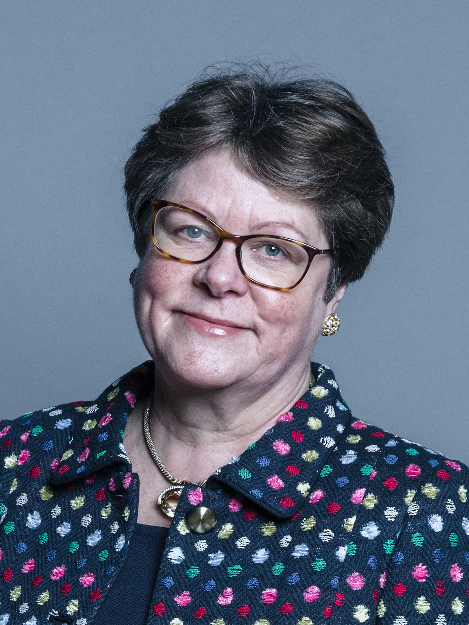 Official portrait of Baroness Brown of Cambridge